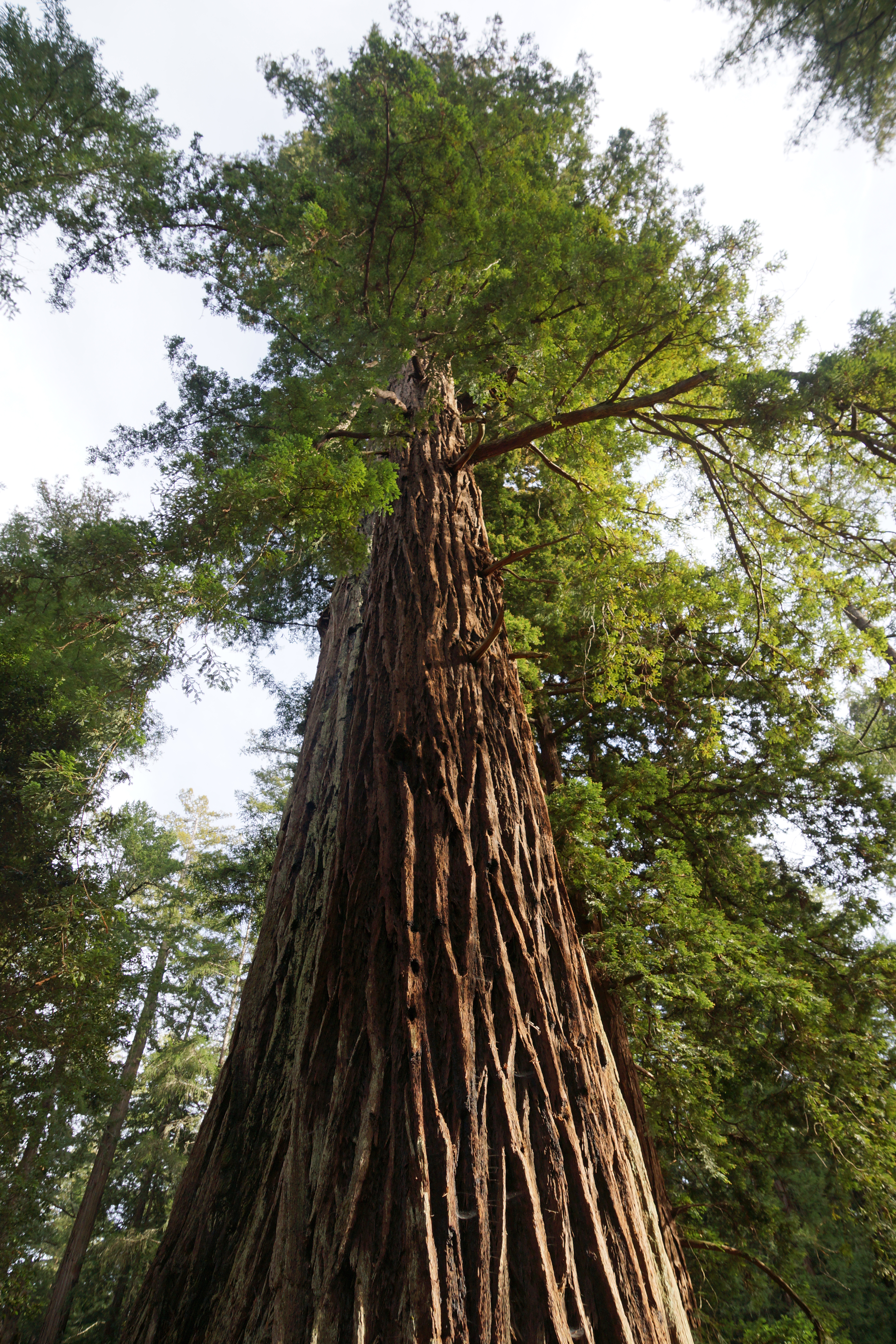 Coast Redwood Sequoia sempervirens, Capitola, Big Basin Redwoods State Park, California